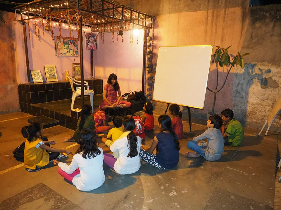 Seema teaching music, song, meditation, English to underprivileged children in New Delhi